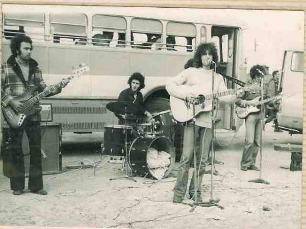 The Israeli Loul group (Shalom Hanoch at the microphone, Miki Gavrielov playing the guitar) performing before soldiers in during the 1973 war.